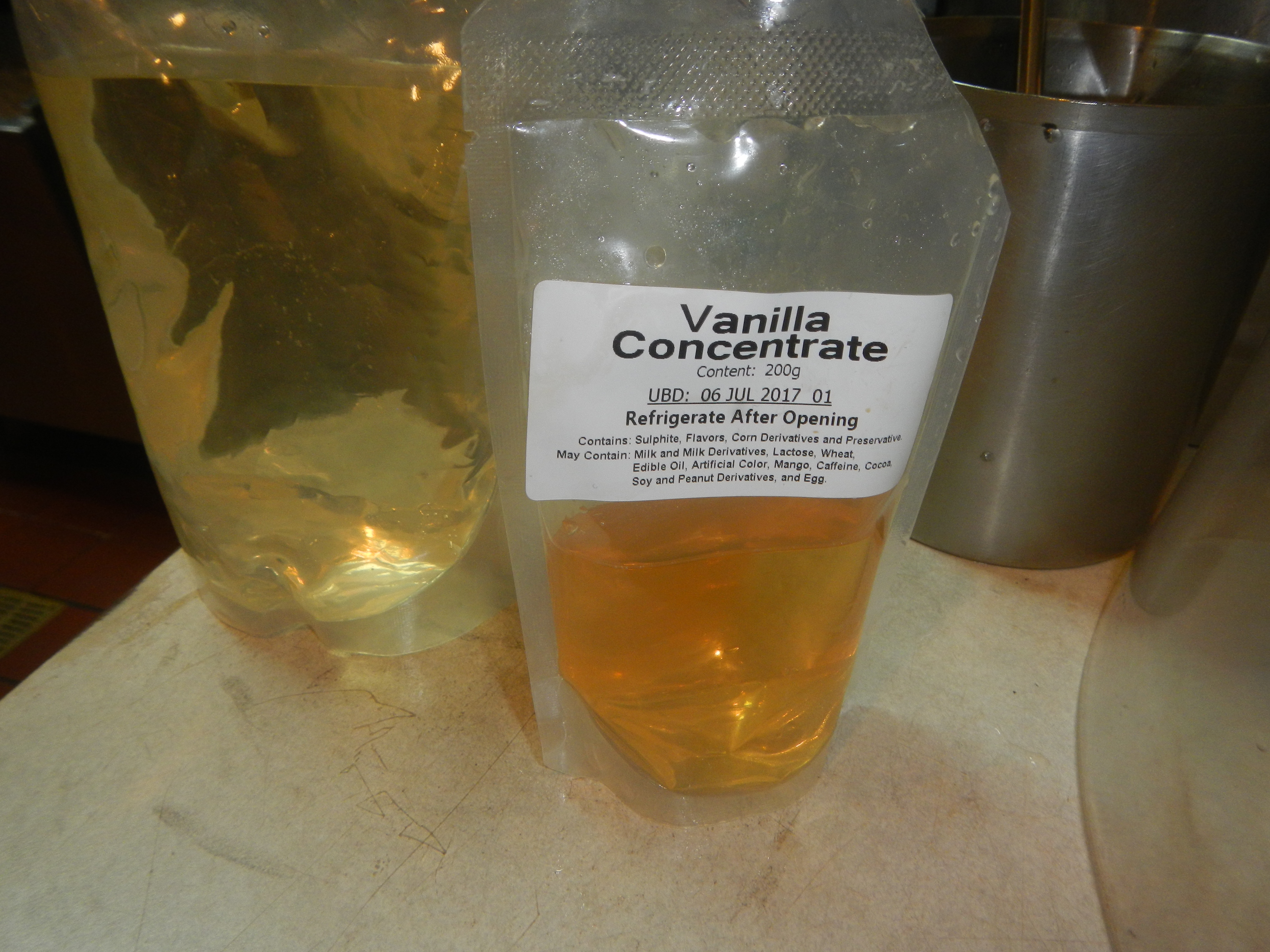 Cuisine of Bulacan food and fruits, McDonald's products, Watermelons in the Philippines, Siopao, Kiampong, Carbonara pasta, Red Ribon products Ube cake Kalderta (Note: Judge Florentino Floro, the owner, to repeat, Donor Florentino Floro of all these photos hereby donate gratuitously, freely and unconditionally all these photos to and for Wikimedia Commons, exclusively, for public use of the public domain, and again without any condition whatsoever).